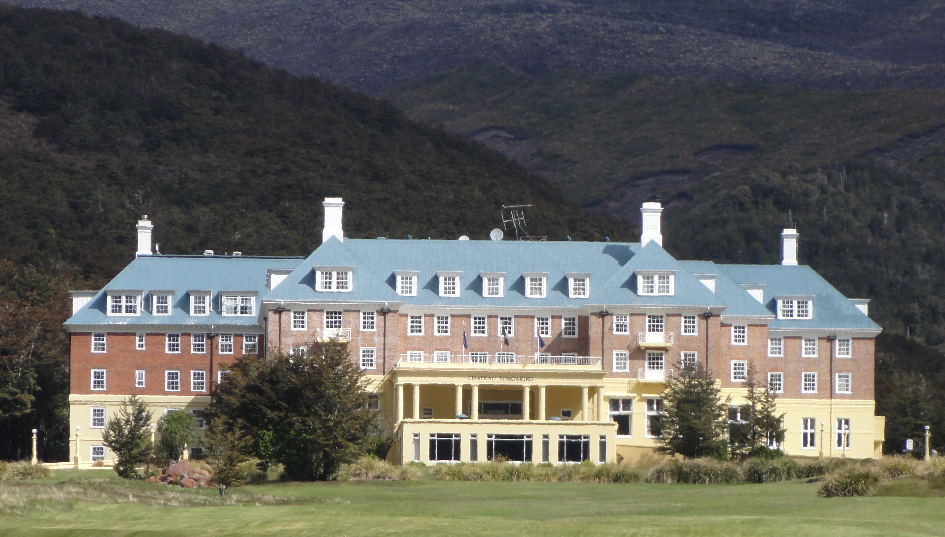 Chateau Tongariro hotel, Whakapapa Village, Tongariro National Park, New Zealand